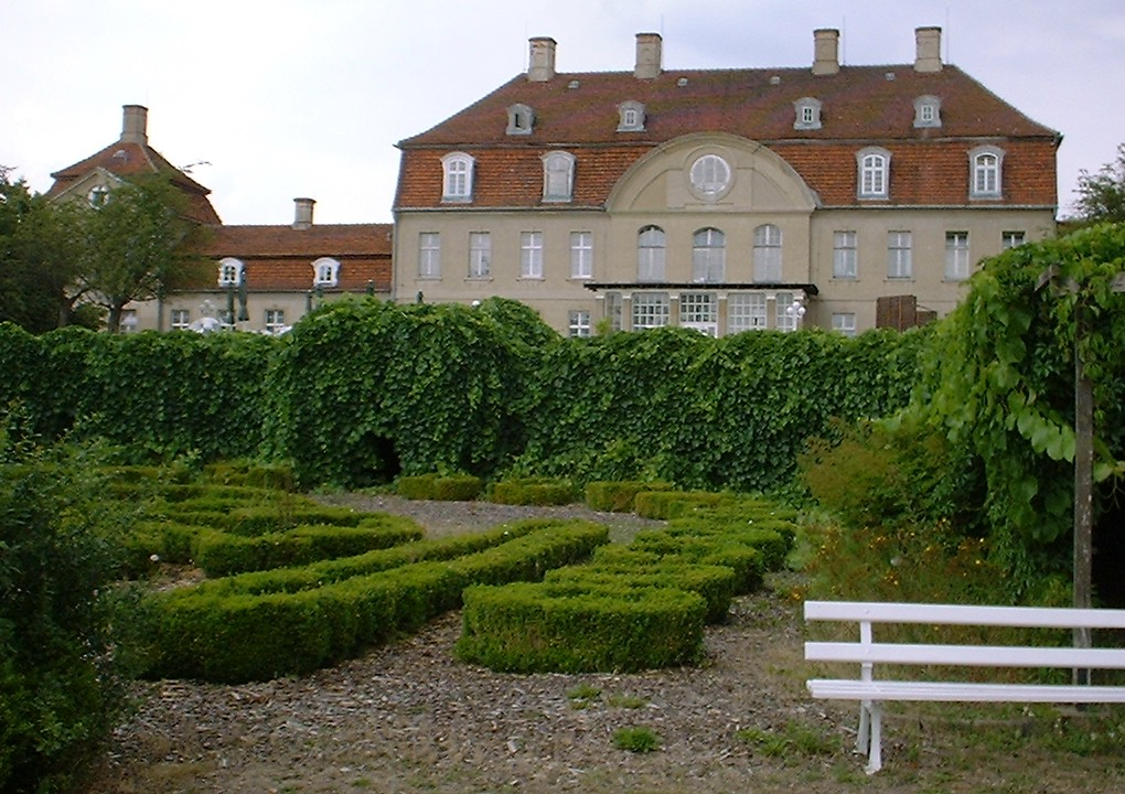 Vietgest manor in Lalendorf in Mecklenburg-Western Pomerania, Germany